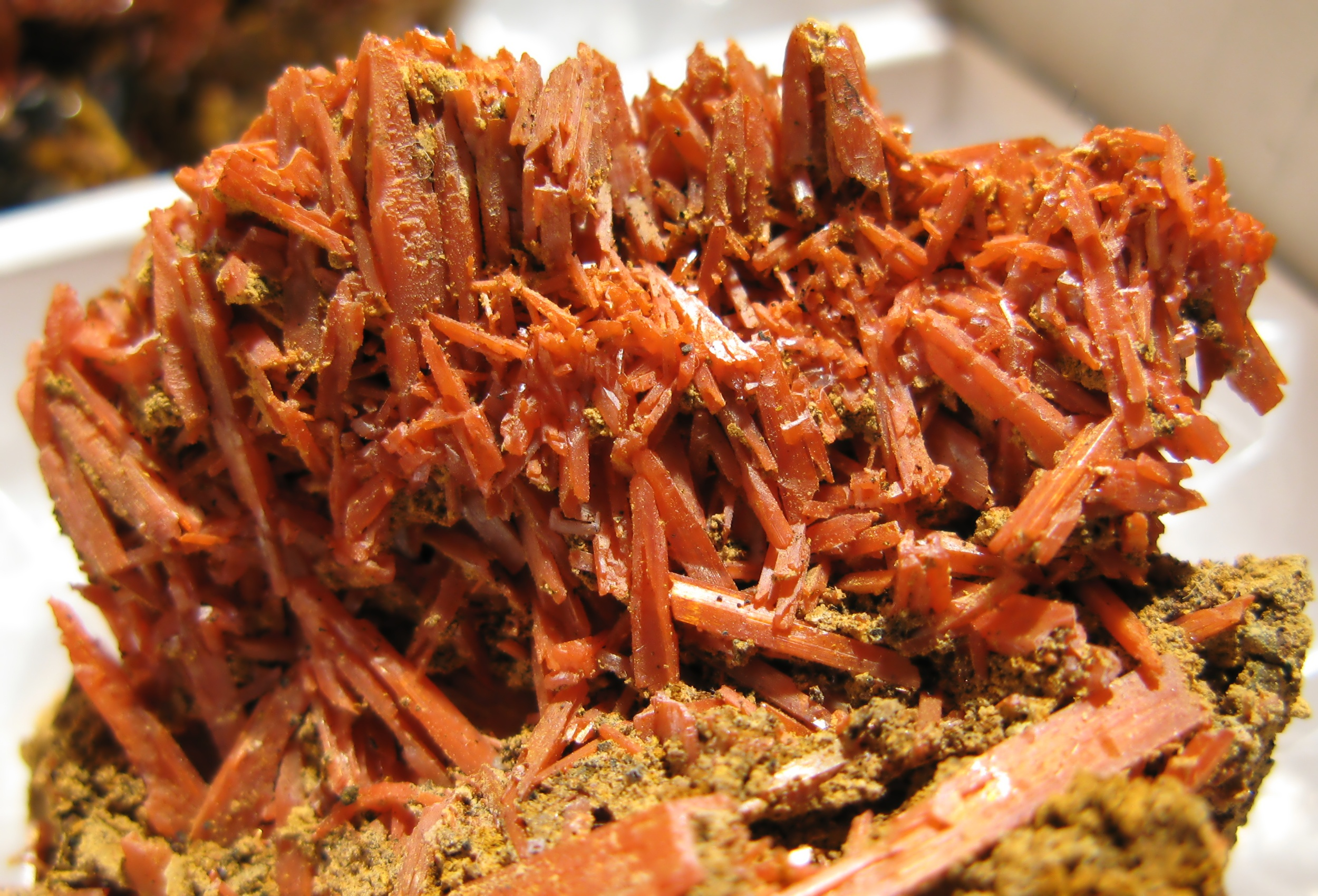 Crocoite from Australia - picture taken on a mineral exchange